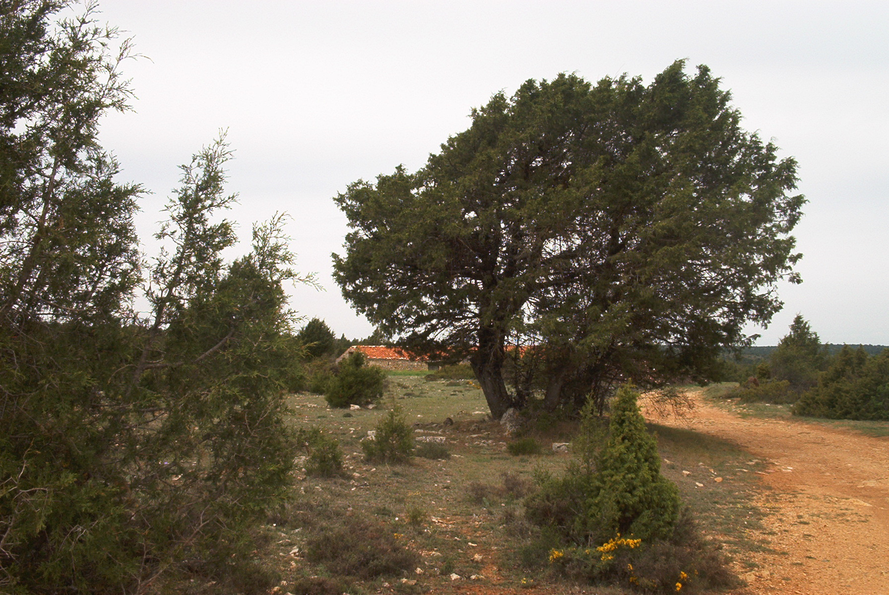 Juniperus thurifera tree. In the Sierra de Solorio, Castile-La Mancha, Spain.